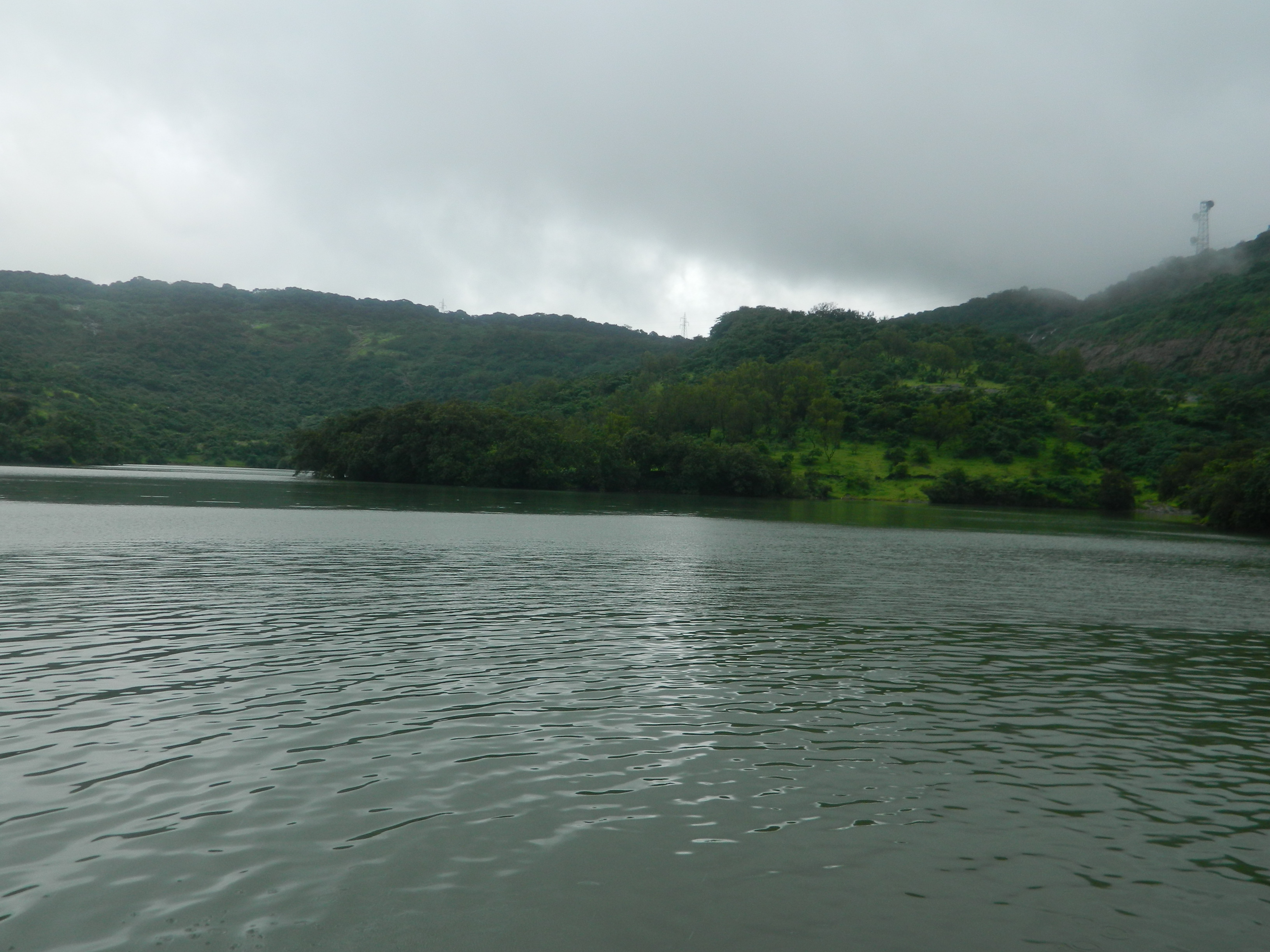 Bhushi dam in rainy season